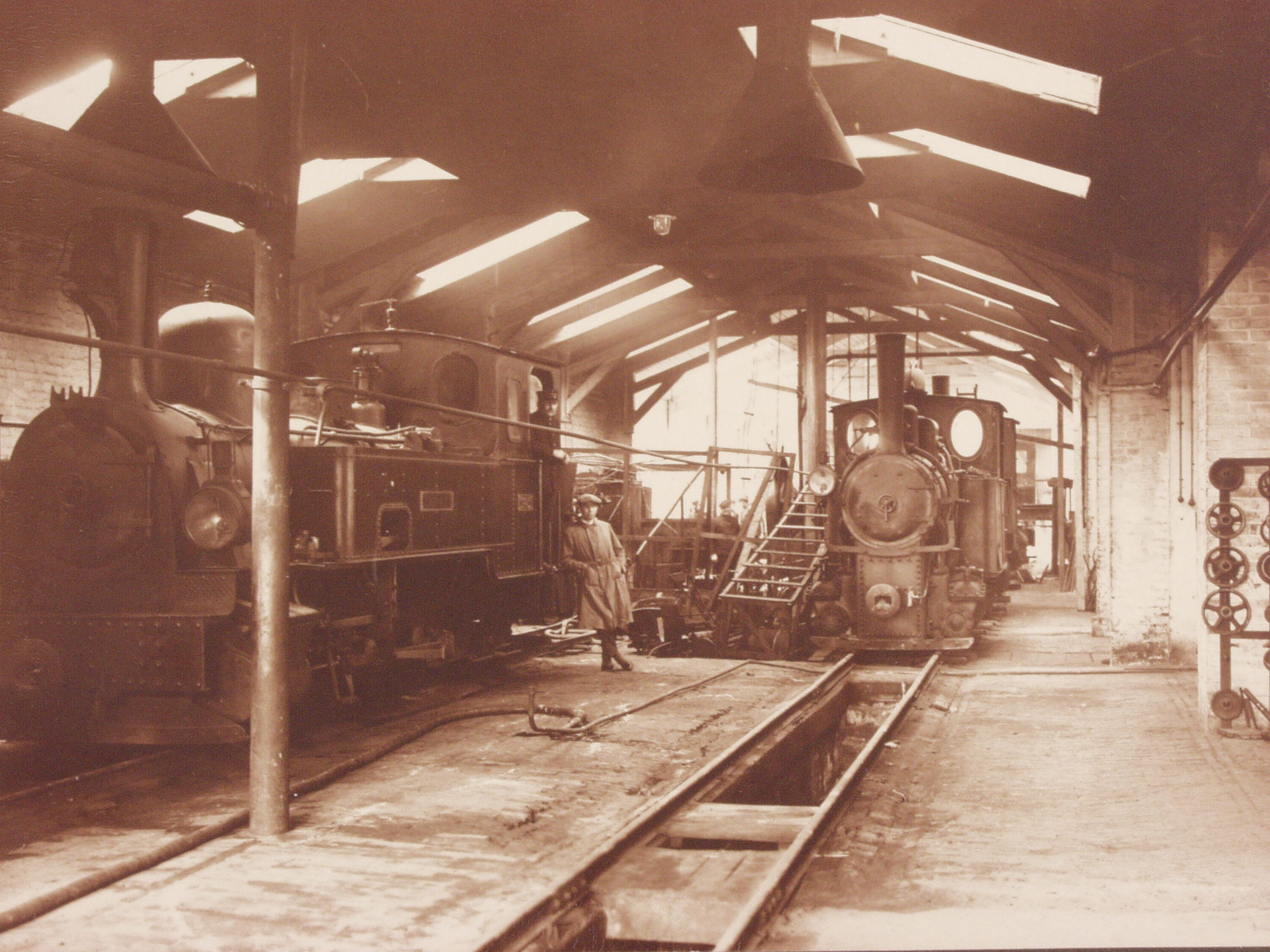 Opalenica narrow gauge railway photo shot about 1920